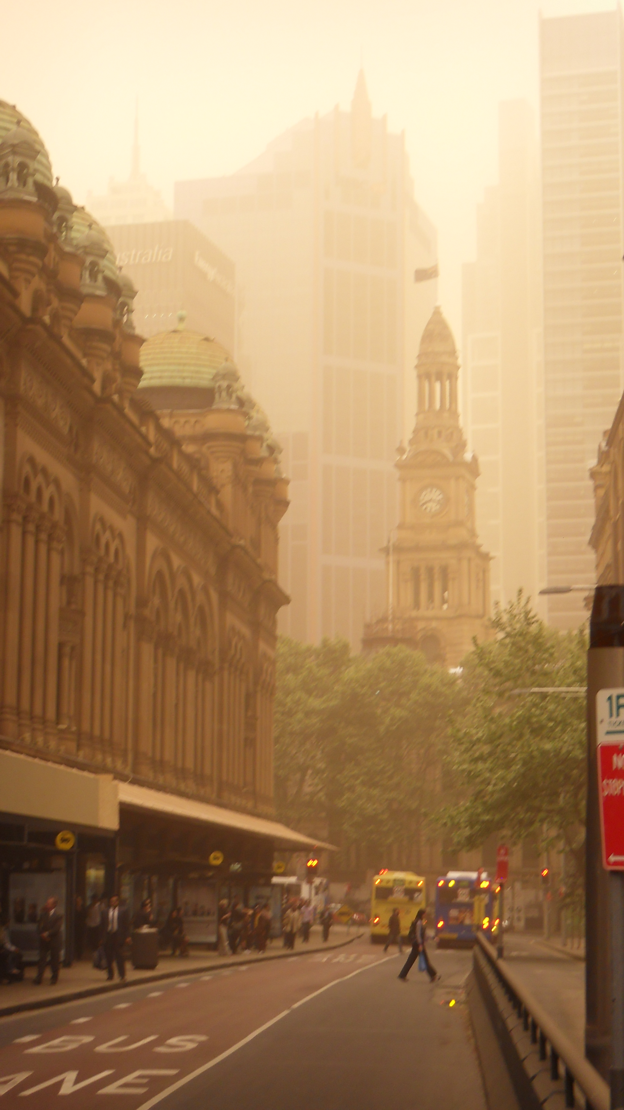 The Sydney Town Hall during a dust storm